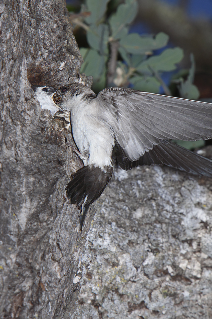 This female Violet-green Swallow is feeding one of her young chicks at the entrance to the nest. The chicks are now able to climb up to the entrance of the nest and the adults no longer have to enter the nesting cavity in the tree. Two days later the chicks had left the nest.